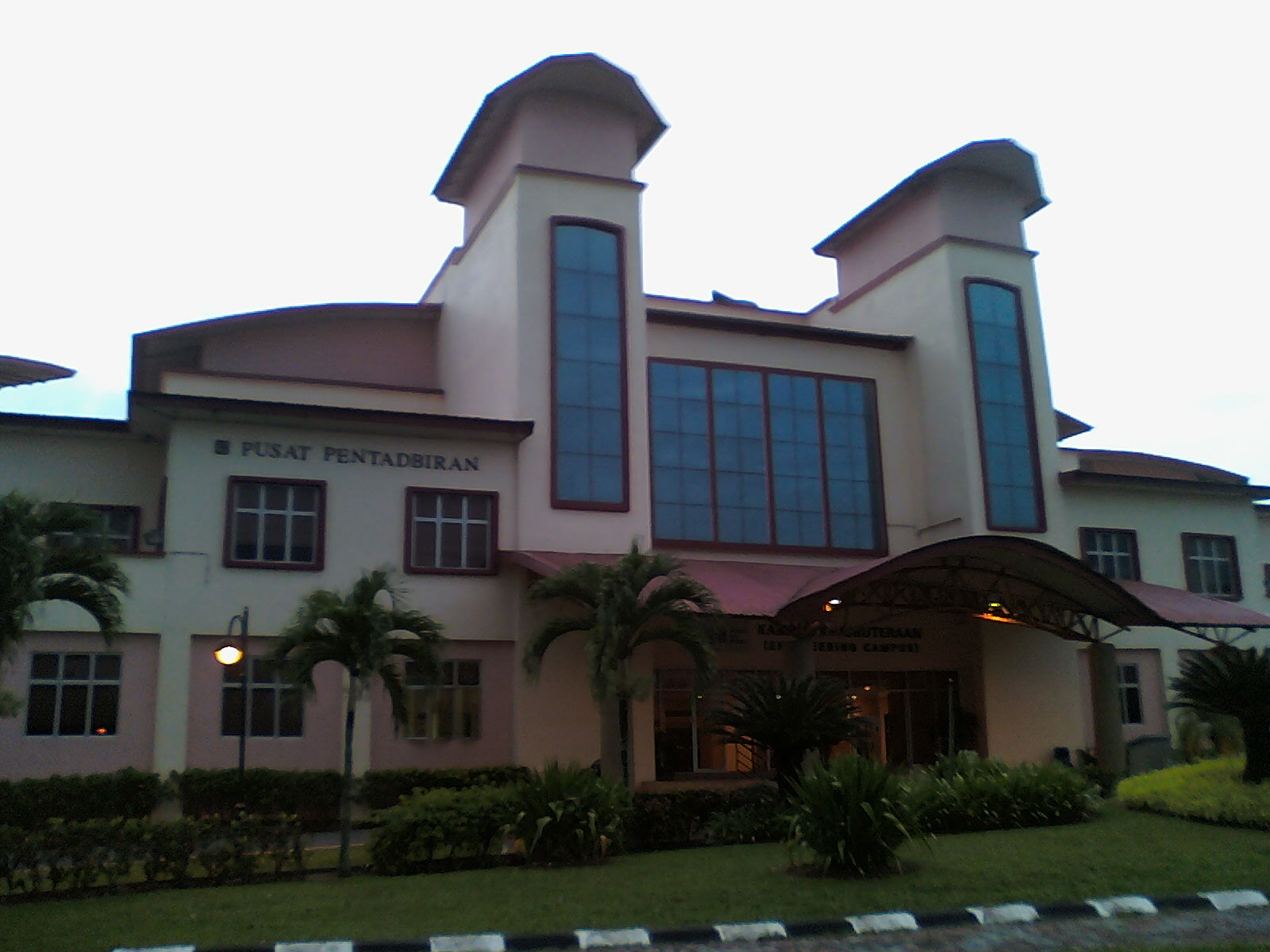 administration building of Engineering Campus.